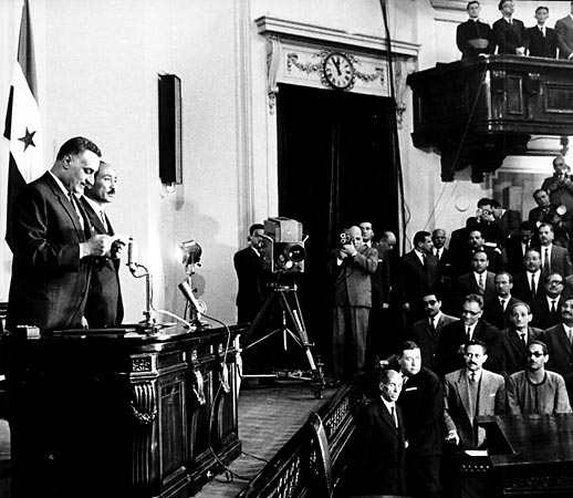 Gamal Abdel Nasser takes presidential oath for his third term as president, behind him is Speaker of the People's Assembly Anwar Sadat.